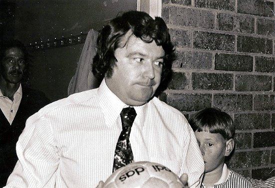 John 'Budgie' Byrne, manager of Hellenic FC of Cape Town, South Africa, early 1970s